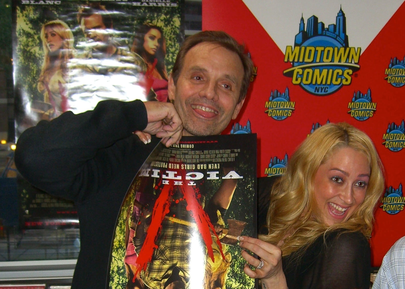 Actor/director Michael Biehn (The Terminator, Aliens, The Abyss) and his wife, actress Jennifer Blanc, at an August 23, 2012 appearance at Midtown Comics Downtown in Manhattan to promote Biehn’s directorial debut, the horror film The Victim, in which both Biehn and Blanc star. This photo was created by Luigi Novi. It is not in the public domain, and use of this file outside of the licensing terms is a copyright violation.